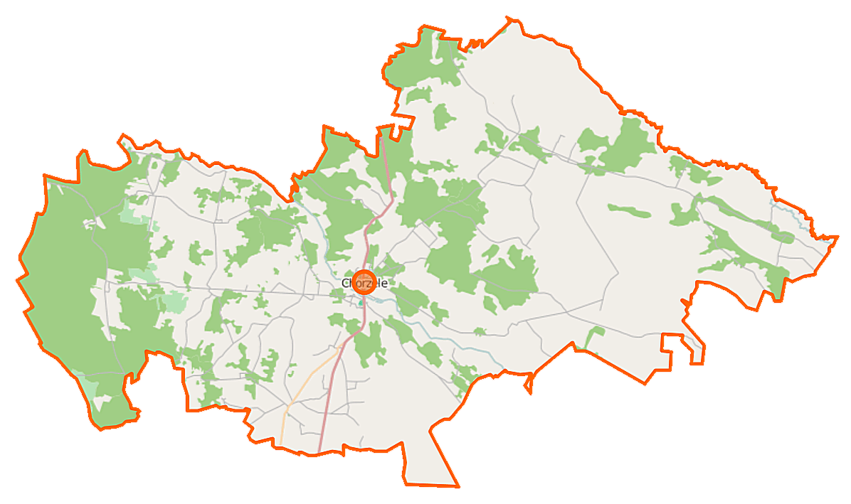 Map of Gmina Chorzele, Poland This map of Chorzele (gmina) was created from OpenStreetMap project data, collected by the community. This map may be incomplete, and may contain errors. Don't rely solely on it for navigation. Border coordinates53.369820.6639←↕→21.211253.1760